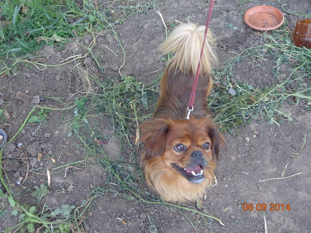 Pekingese Dog